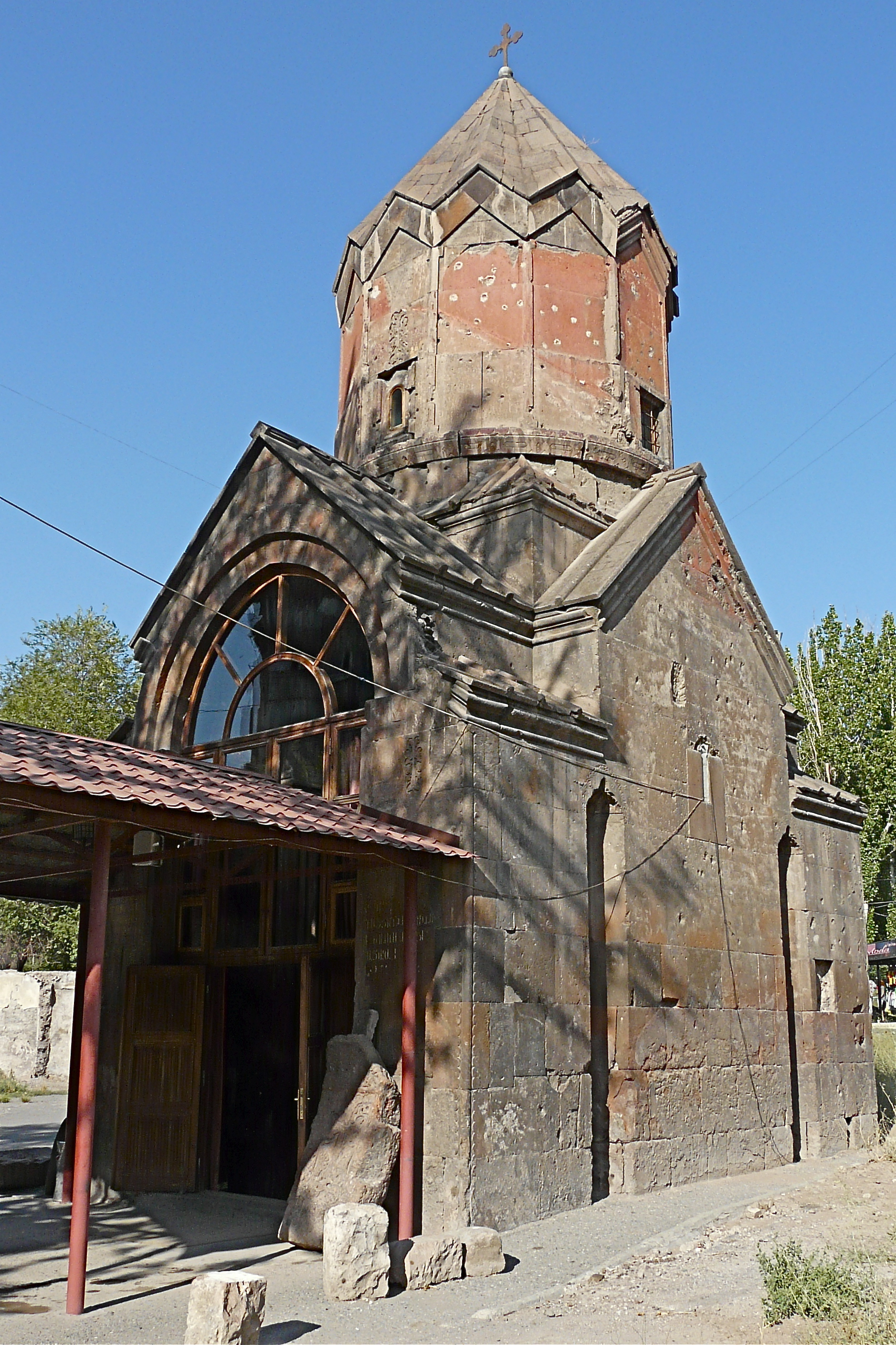 The Katoghike Church in Yerevan, Armenia.